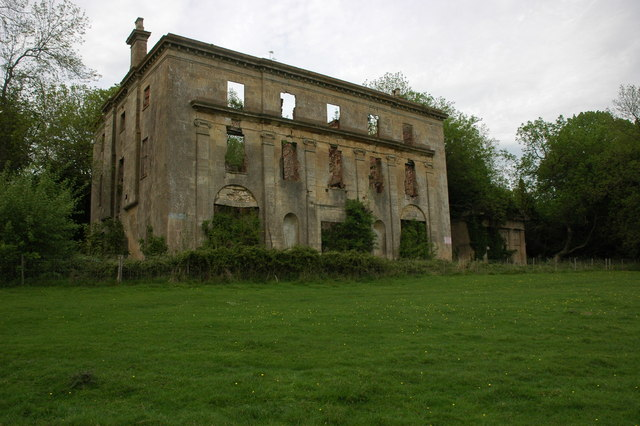 The ruins of Piercefield House Over the years Piercefield House had many different owners until it was abandoned into the 1920s, today it is in a very sorry state.